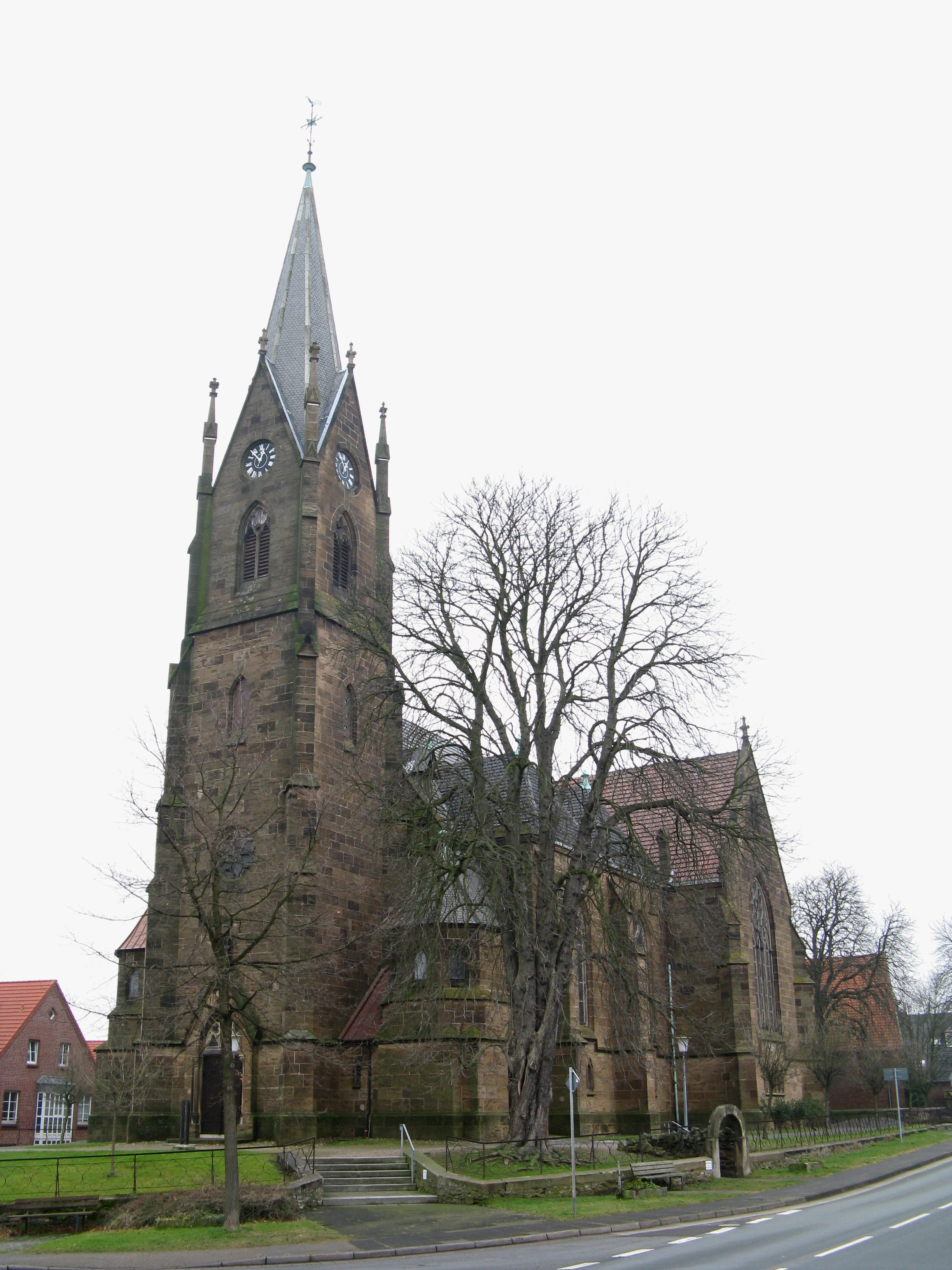 Lutheran church in Lerbeck-Porta Westfalica, Germany